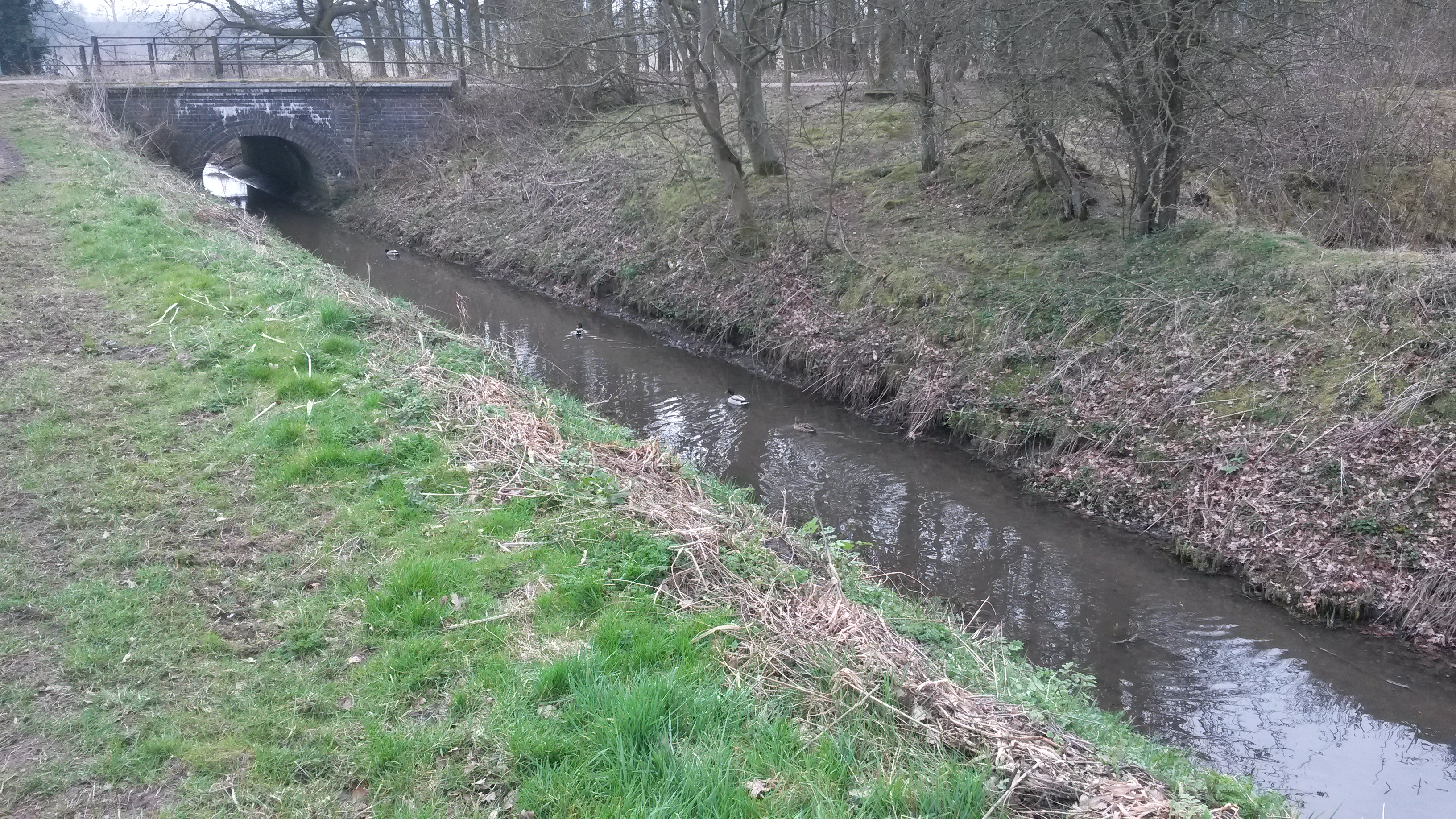 Skellingthorpe's historic Catchwater Drain